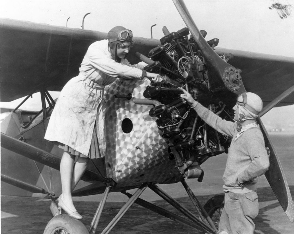 Image from the Ev Cassagneres Collection-----Please Tag this image so information can be recorded. This material may be protected by Copyright Law (Title 17 U.S.C.)--Repository: San Diego Air and Space Museum